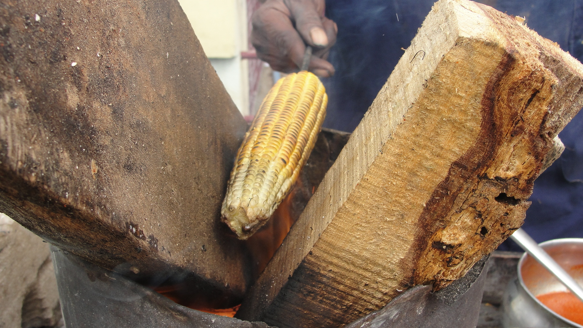 A process of Maize dish making